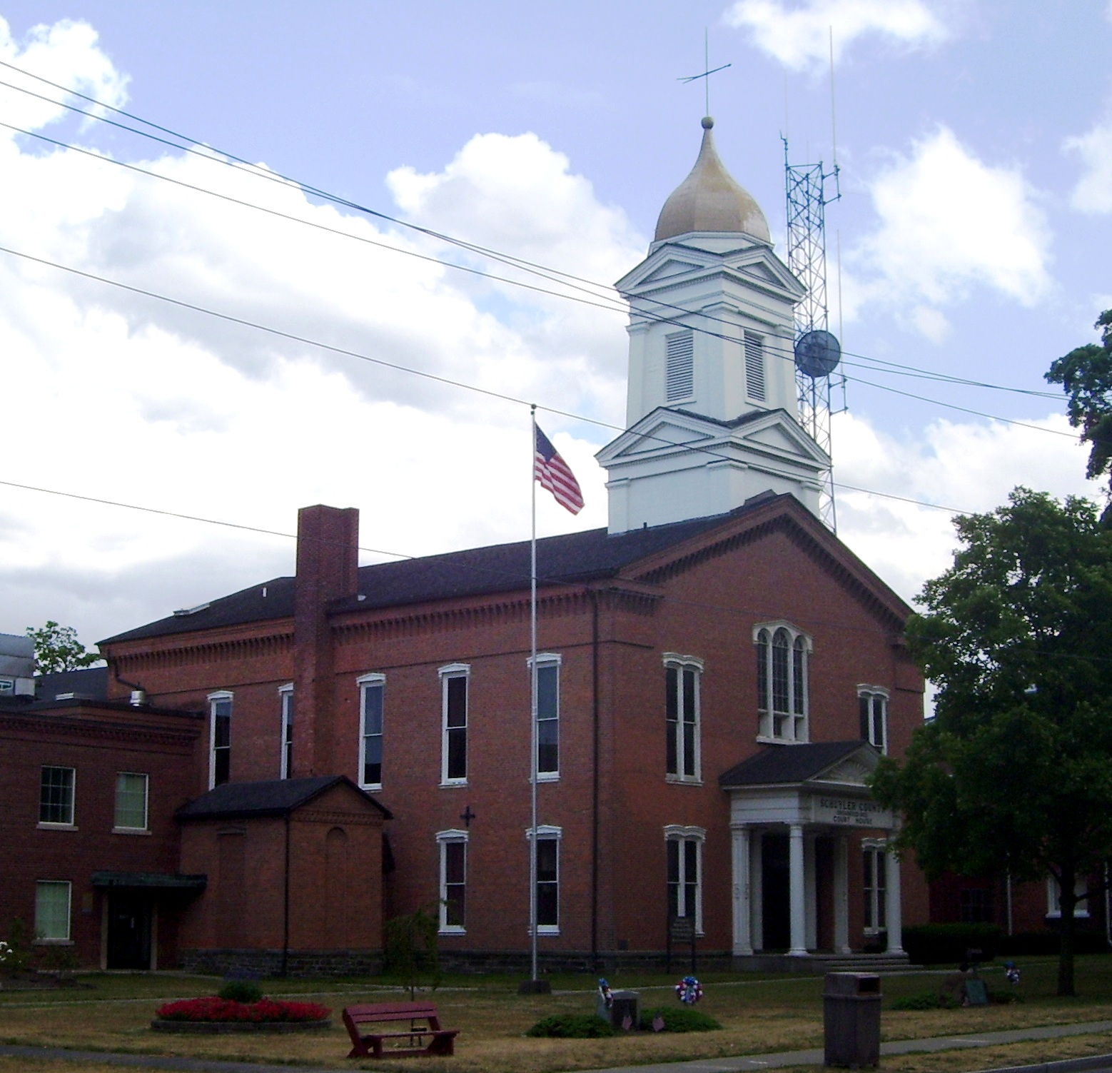 The Schuyler County Courthouse on North Frankln Street between 9th and 10th Streets in Watkins Glen, New York, was built in 1855 and was added to the National Register of Historic Places in 1974.